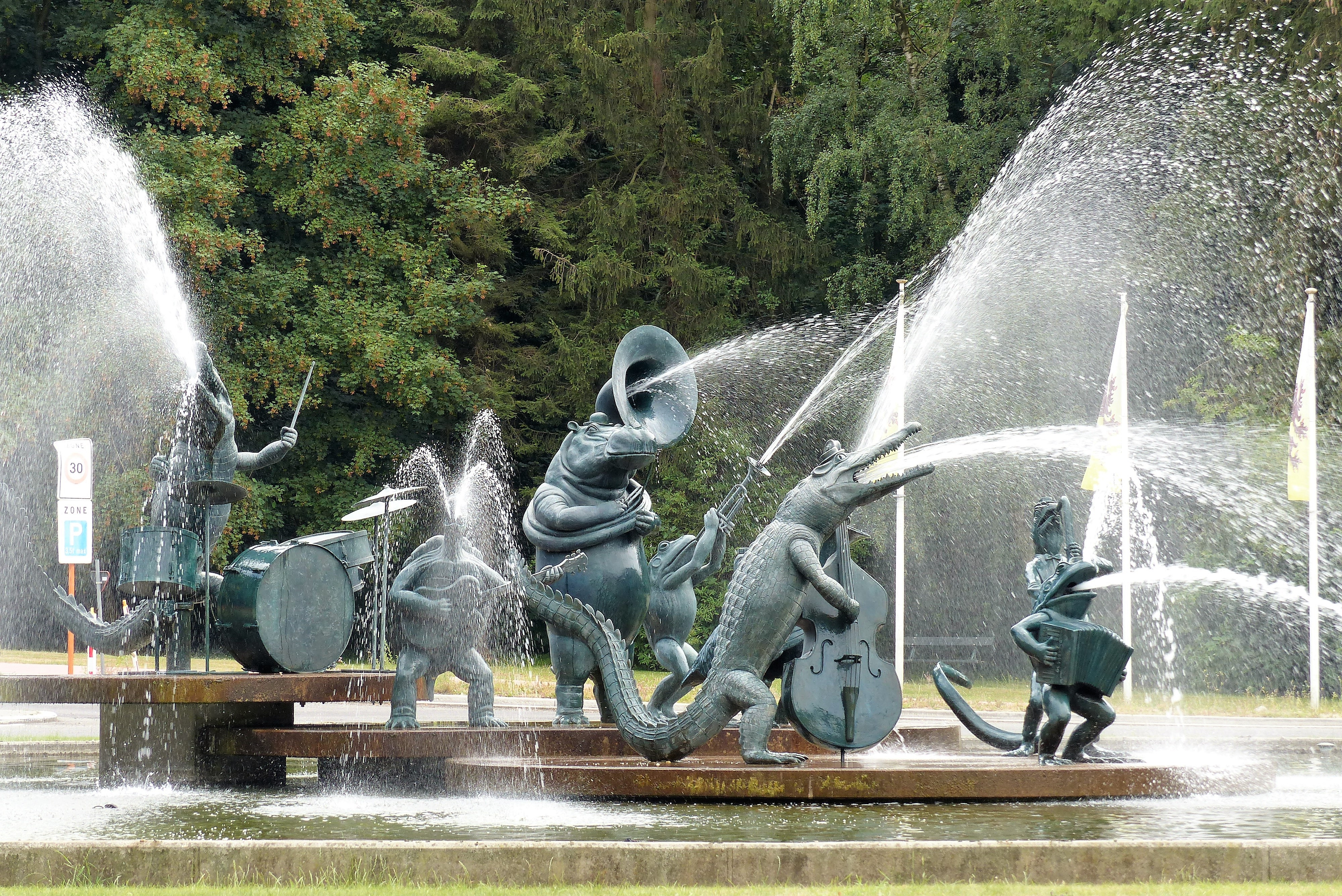 Tervuren, fountain, animal sculptures, bronze.